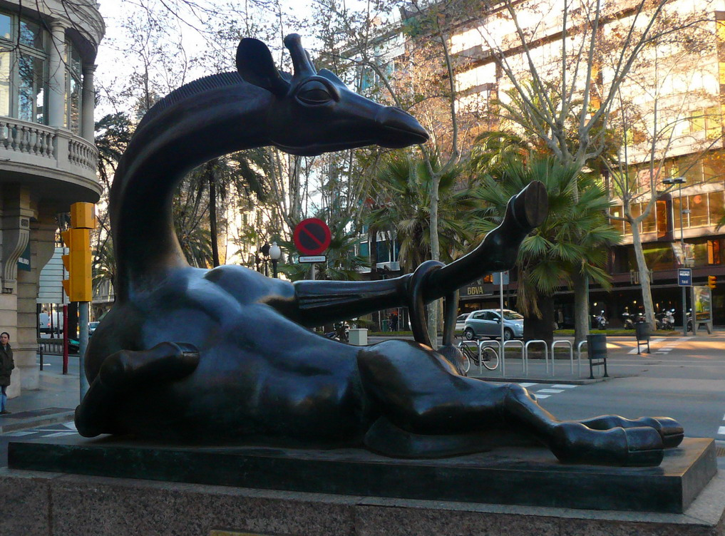 La girafa coqueta in Rambla de Catalunya in Barcelona, by Josep Granyer i Giralt.